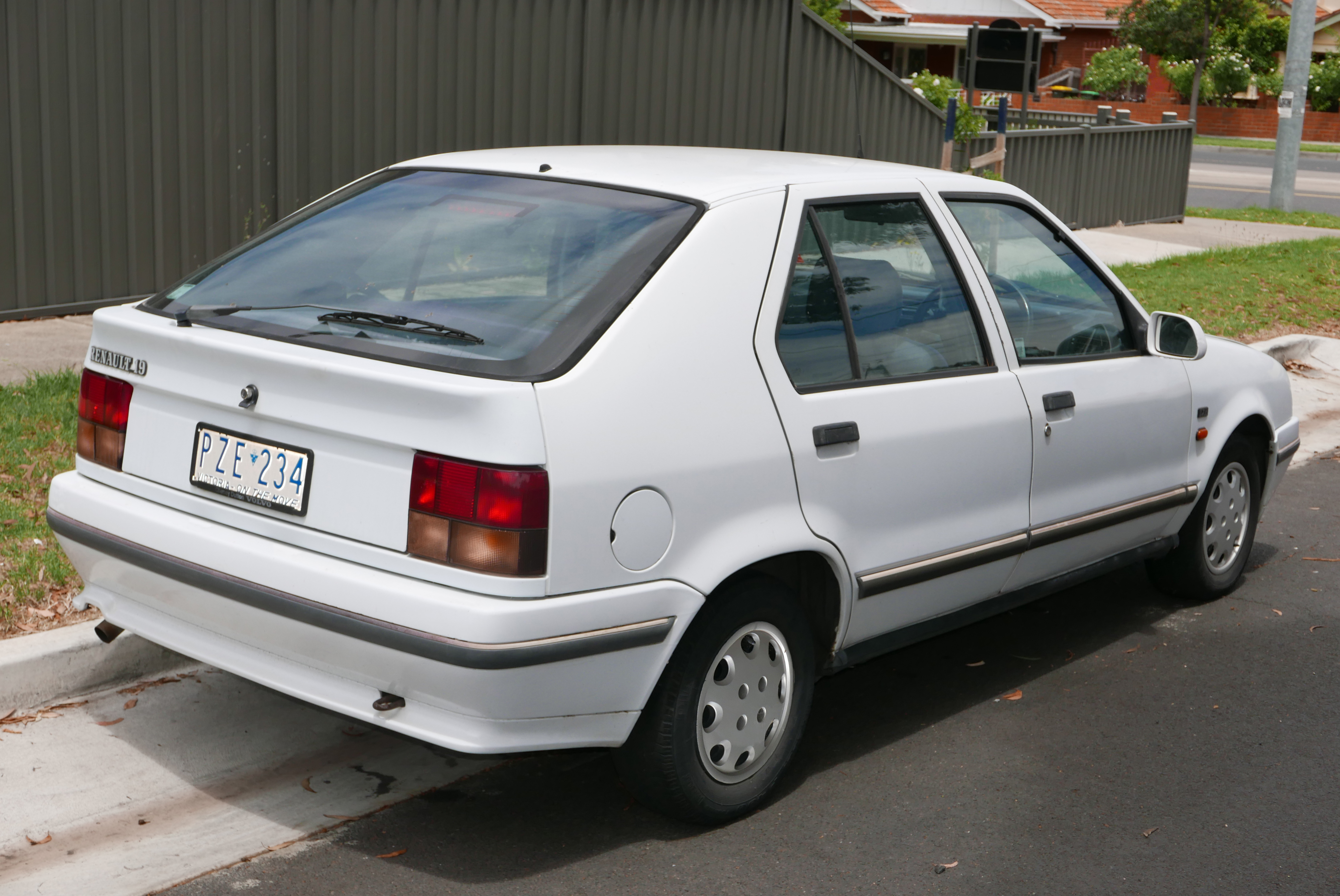 1992 Renault 19 TXE 5-door hatchback. Photographed in Pascoe Vale, Victoria, Australia. Vehicle registration enquiry results Jurisdiction Victoria Registration PZE234 Chassis code VF1B53C0508038502 Engine code NN742C05782 Compliance date 1992-05 Year of manufacture 1992